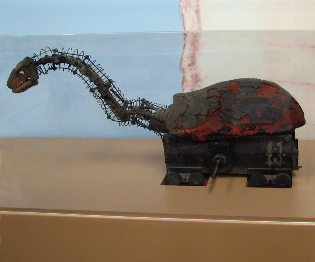 The actual animation model of the brontosaur used in the 1933 King Kong movie. Photo was taken in The Dinosaur Museum in the city of Blanding, Utah, USA.